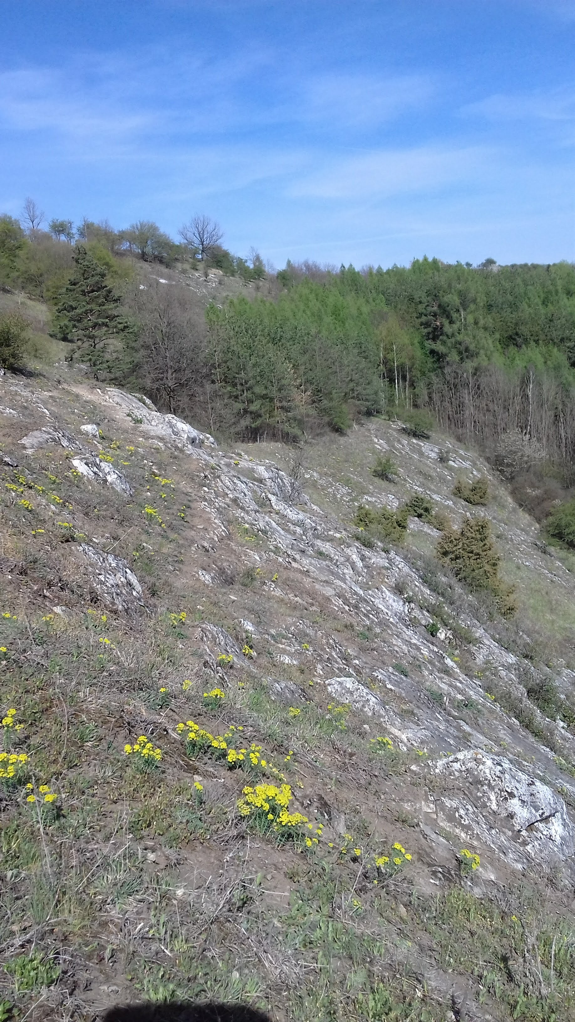 Kozince, Týnčany karst